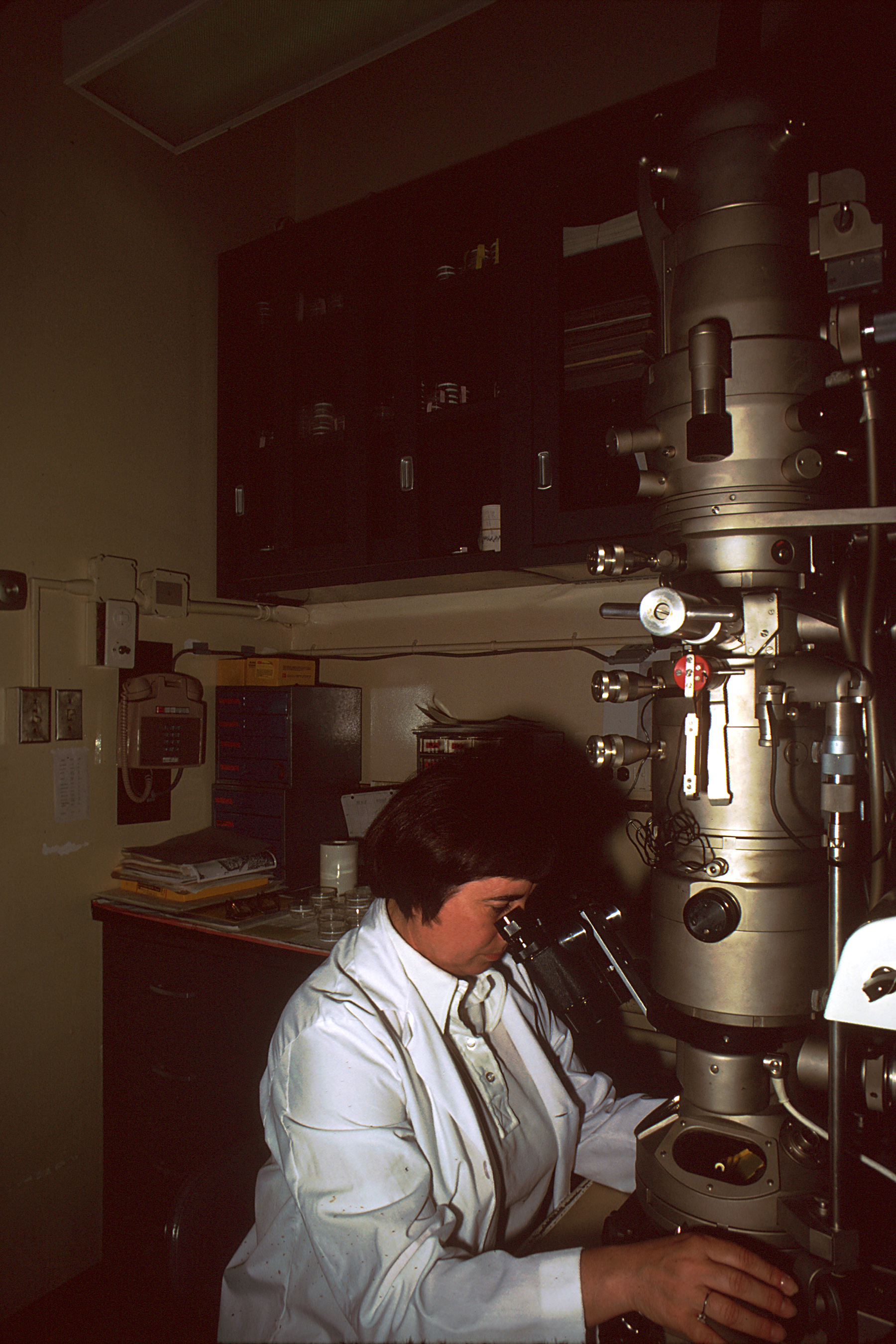 Title Electron Microscope Description A Caucasian technician in a laboratory setting is seated at an electron microscope, looking through the viewer. Topics/Categories People -- Adult People -- Health Professional Science and Technology -- Laboratory Techniques/Equipment Type Color, Photo Source National Cancer Institute